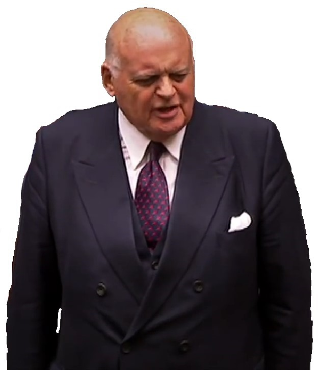 Cutout of Rt Hon Sir Peter Tapsell MP